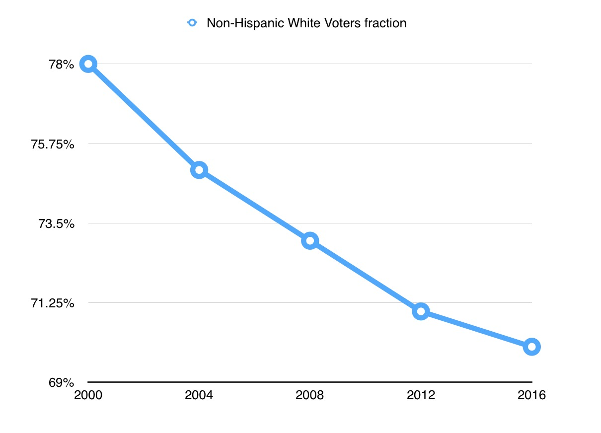 A graph showing the fraction of United States presidential election voters not belonging to a racial or ethnic minority from 2000 to 2012, with projected 2016 data.